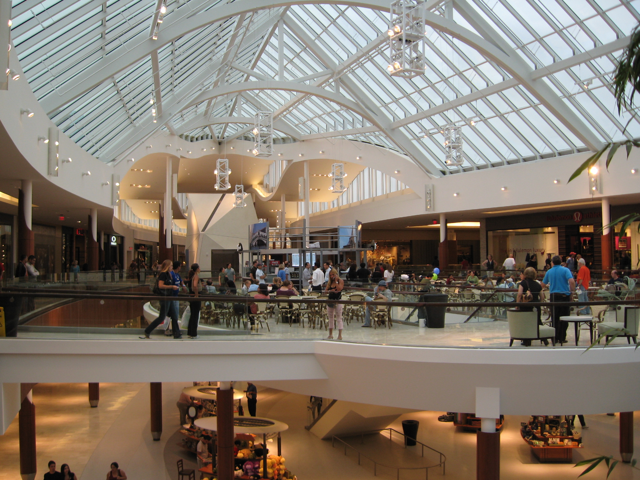 The new expansion to the Natick Collection, taken two days after its grand opening.